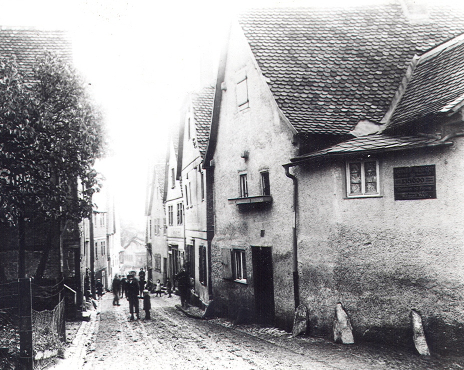 The Hauptstrasse (main street) in Cronberg (now: Kronberg im Tanus) around 1900.